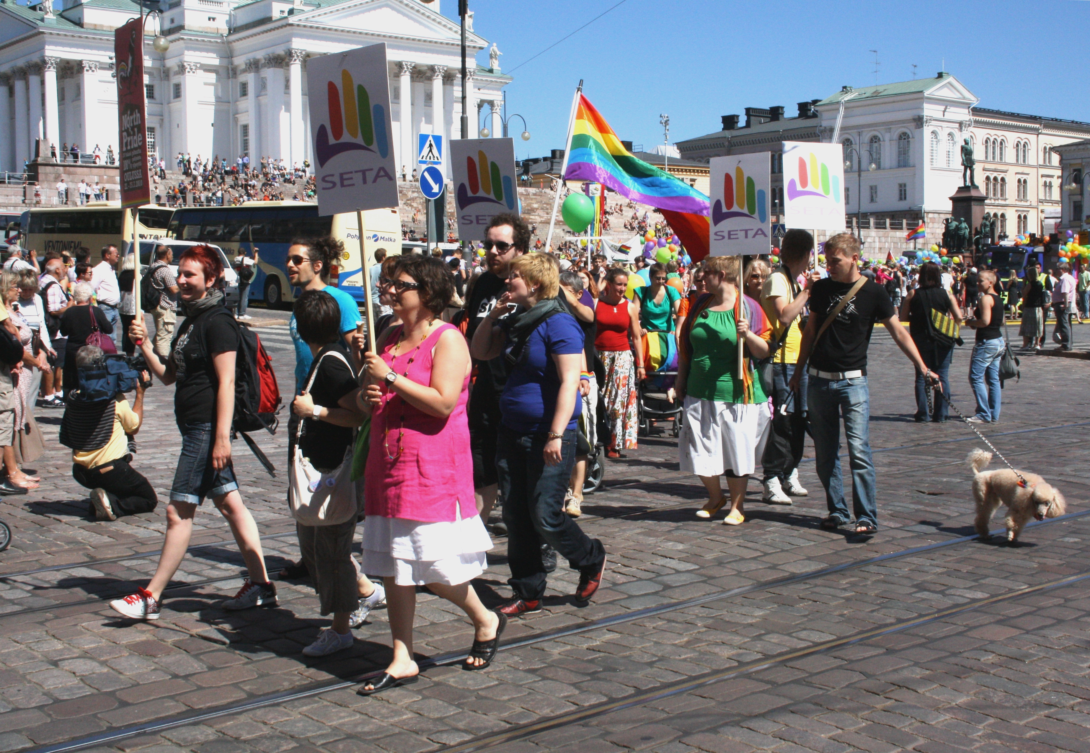 Representatives of Seta marching in the 2010 Helsinki Pride Parade.